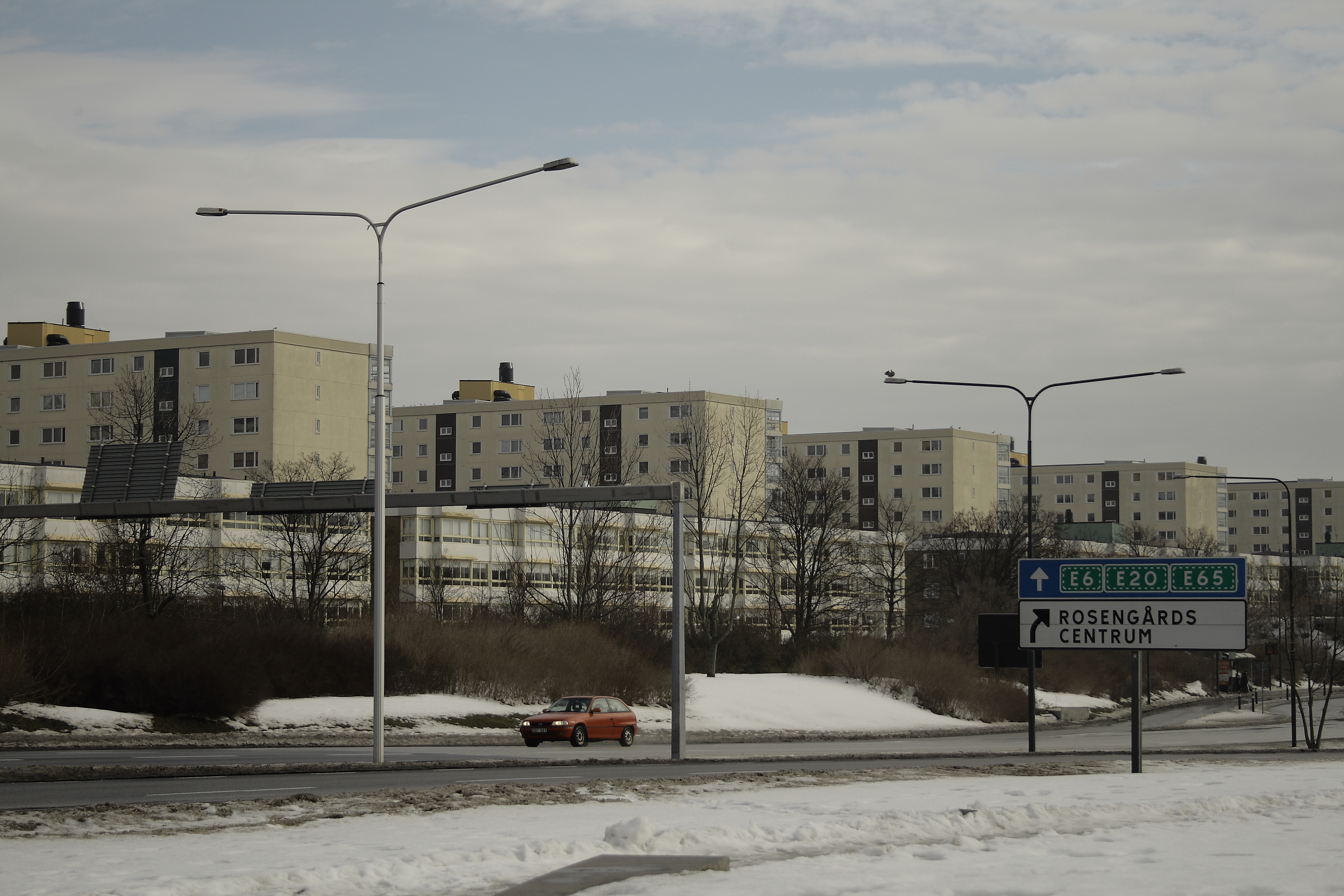 View of Rosengård across Amiralsgatan.